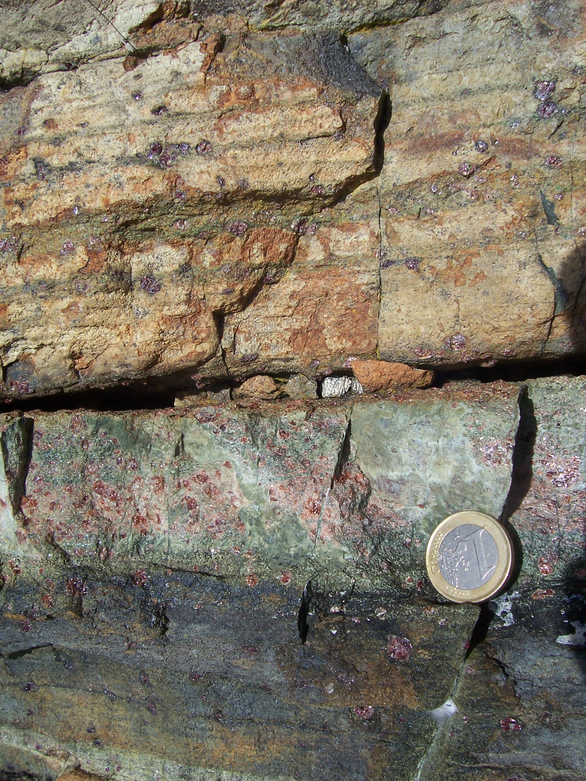 Pyroxenite banding at the boundary of a peridotite intrusion in the Western Gneiss Region, Otrøy, Møre og Romsdal, Norway. The peridotite is seen above (mocca-colouring from weathered olivine; some purple garnets), followed by a clinopyroxenite band (greenish Cr-diopsite) and orthopyroxenite (dark olive). Red minerals are garnet. Coin of 1 euro for scale.